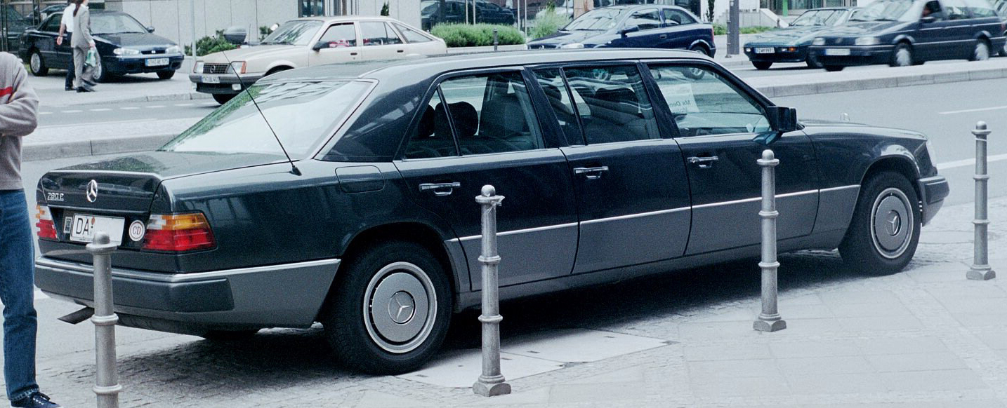 1990-92 Mercedes-Benz 260E Lang (V124) in Frankfurt am Main, 2001.